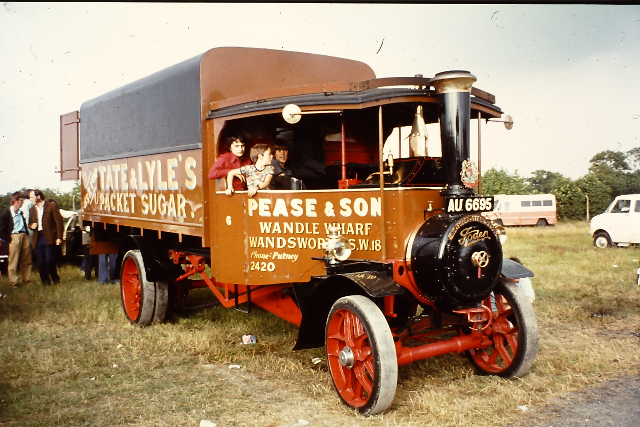 Foden steam wagon, Tate & Lyle livery, AU 6695 Steam rally, North West England (Kendal?), 1970s. Now at the British Commercial Vehicle Museum